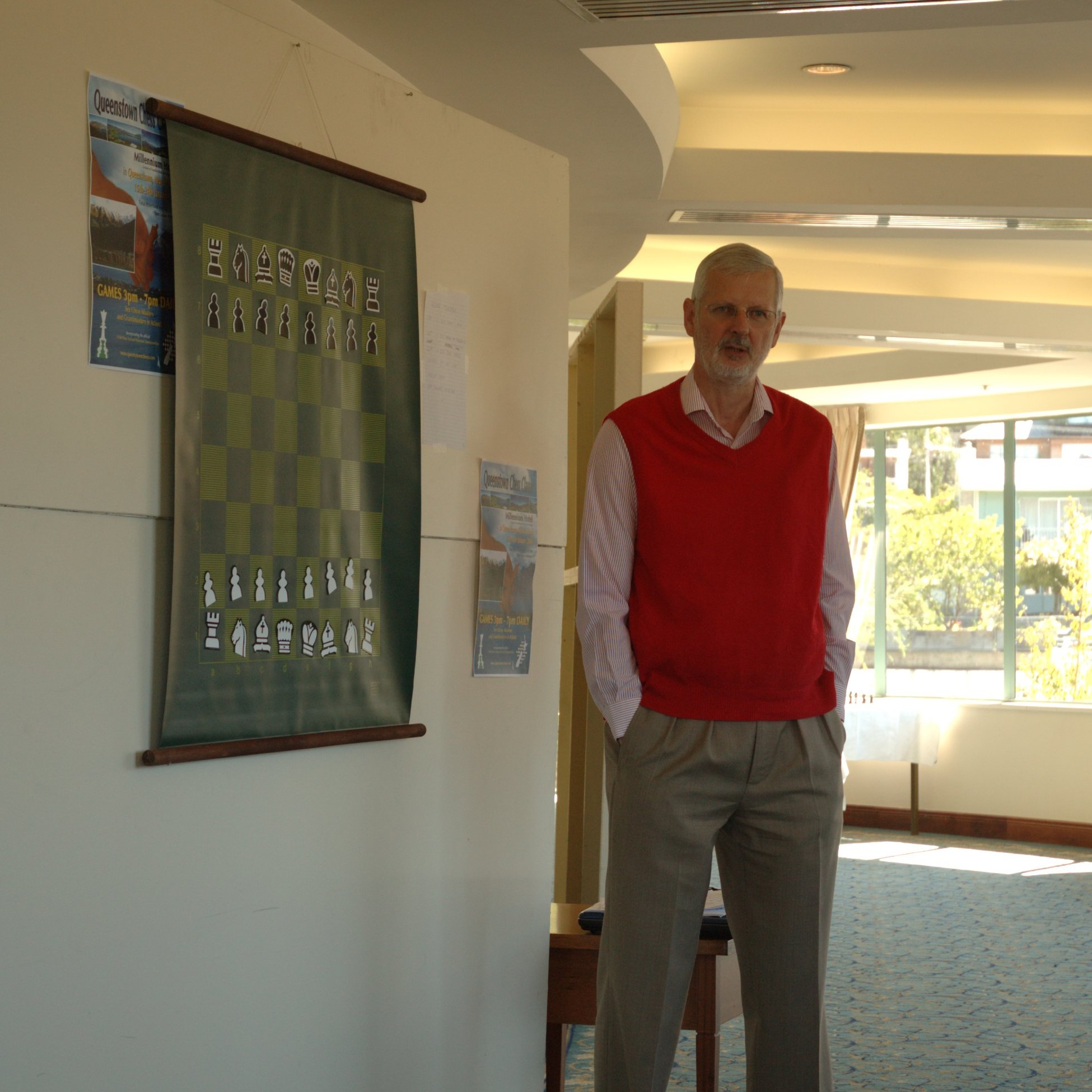 IM Herman van Riemsdijk giving a lecture before one of the rounds, Queenstown, NZ